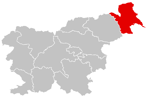 adapted from file File:Slovenian-regions-obalnokraska.png